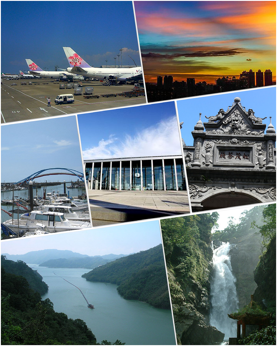 Montage of Taoyuan City, Republic of China.